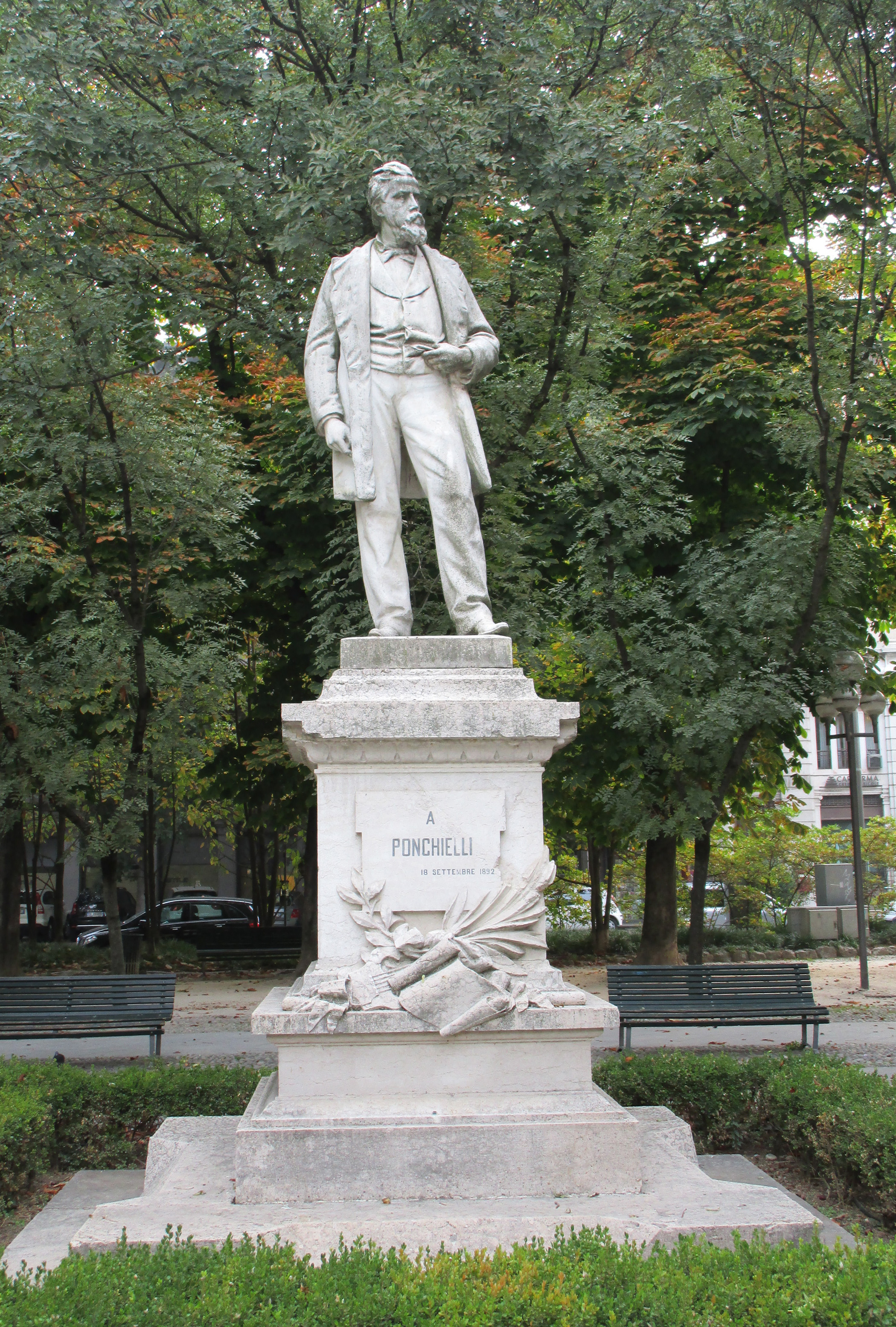 Monument to Amilcare Ponchielli, in the Public Gardens John Paul II in Cremona, Italy